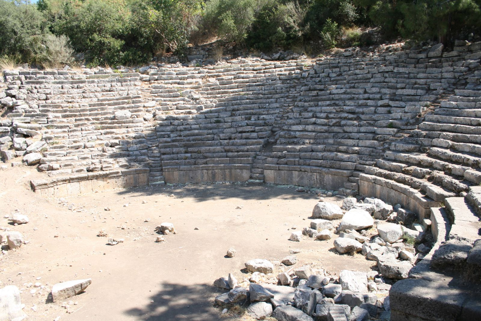 Phaselis, antik theatre